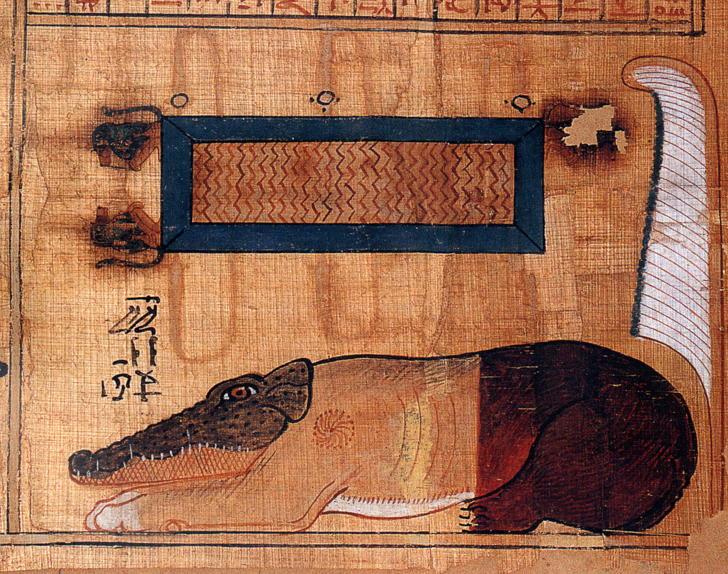 One of the earliest images of Ammit, the being who devours condemned souls in the afterlife, in the Book of the Dead.